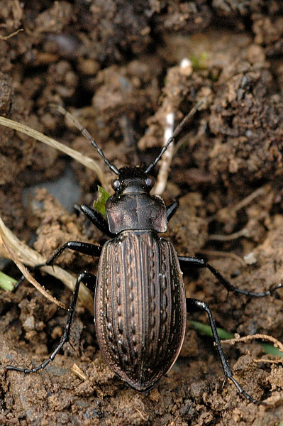 Picture taken in Commanster, Belgian High Ardennes . Species: Carabus granulatus